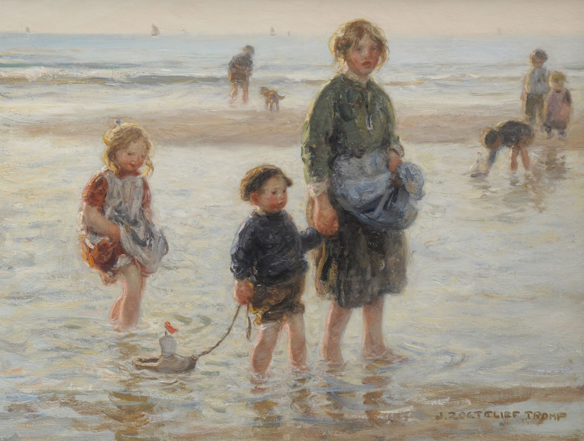 Oil on Canvas painting by Jan Zoetelief Tromp